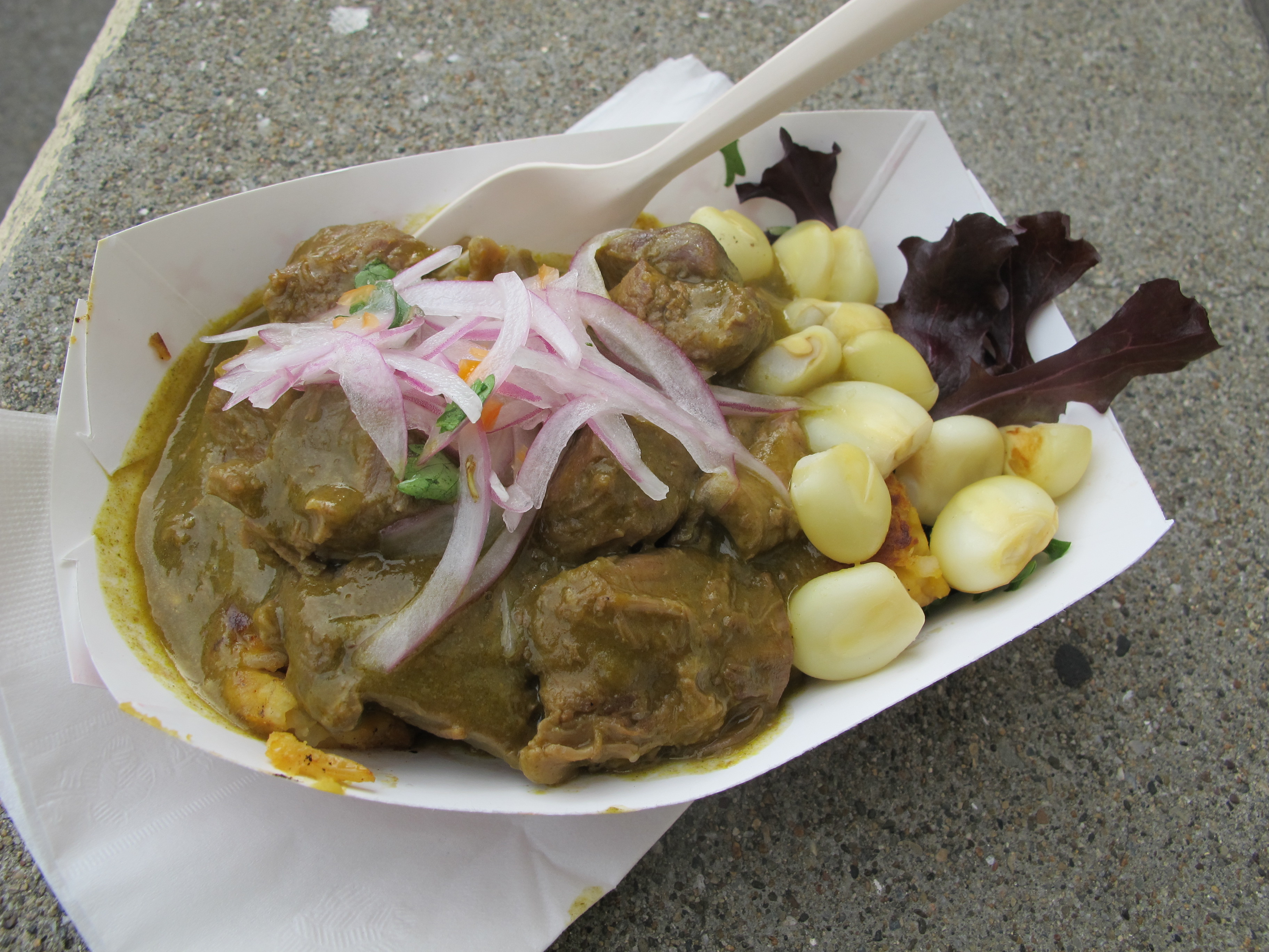 Seco de Cordero (Lamb Leg Stew) from Lima Peruvian at Off the Grid: Fort Mason Center